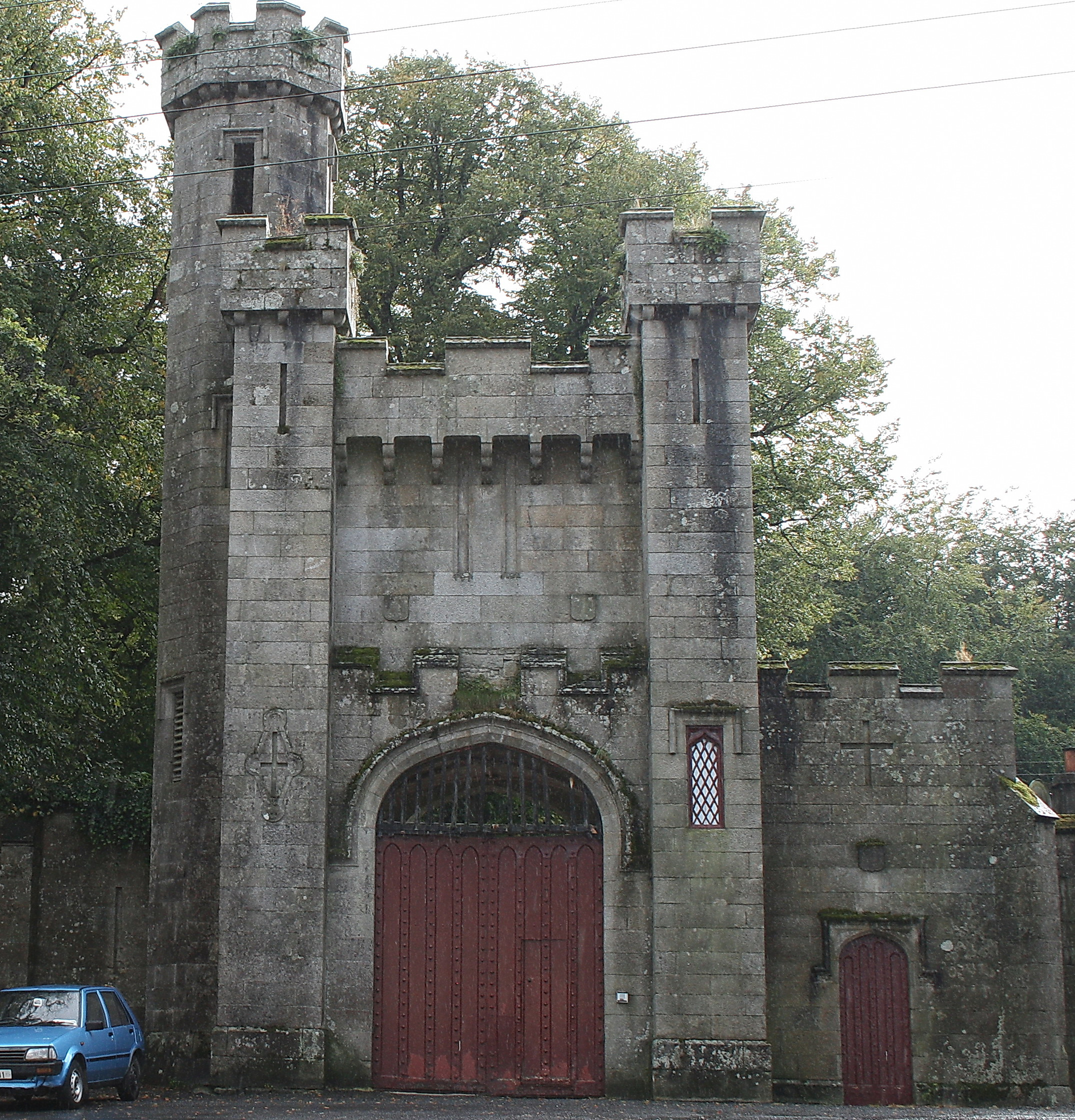 Borris, County Carlow, near to Borris, Milltown Cross Roads and Ullard, Carlow, Ireland. The main gates of Borris House.